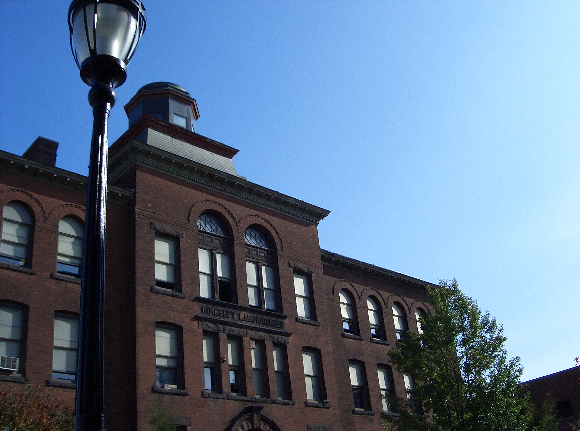 Worcester Academy Kingsley Laboratories